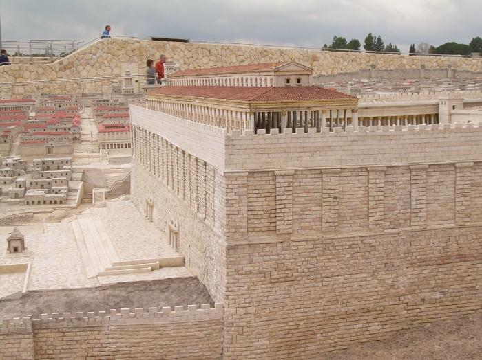 Jerusalem, Israel Museum, Photo of ancient Jerusalem model, formerly at Holyland Hotel